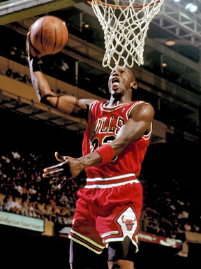 Chicago Bulls. Michael Jordan 1987-88